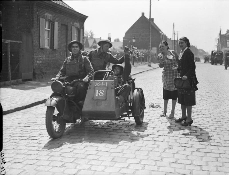 The British Army in France and Belgium 1940 Belgian girls give flowers to British troops riding a Norton motorcycle combination in Herseaux, as the BEF crosses the border into Belgium, 10 May 1940.